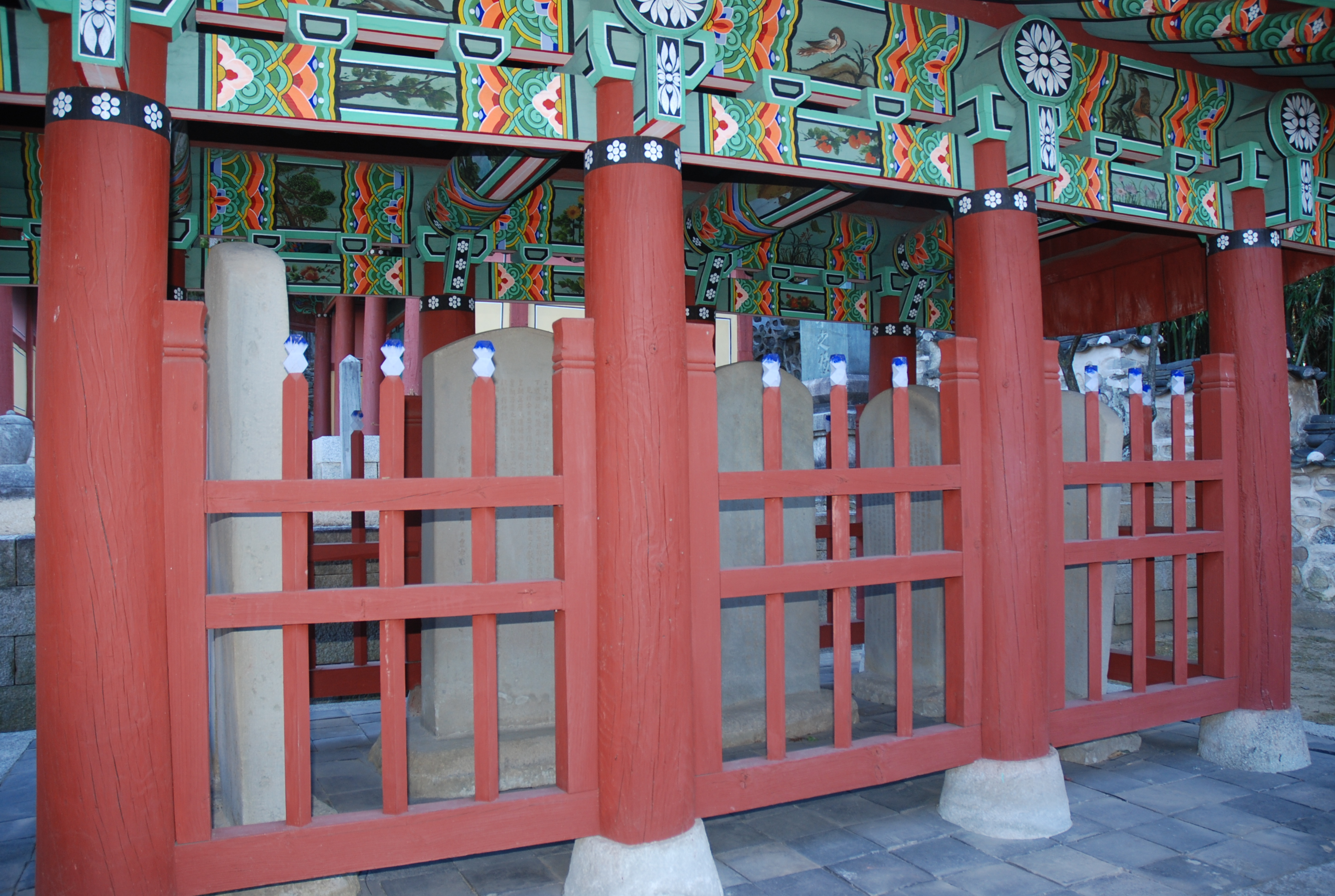 Changryulsa shrine monument in Junju Castle